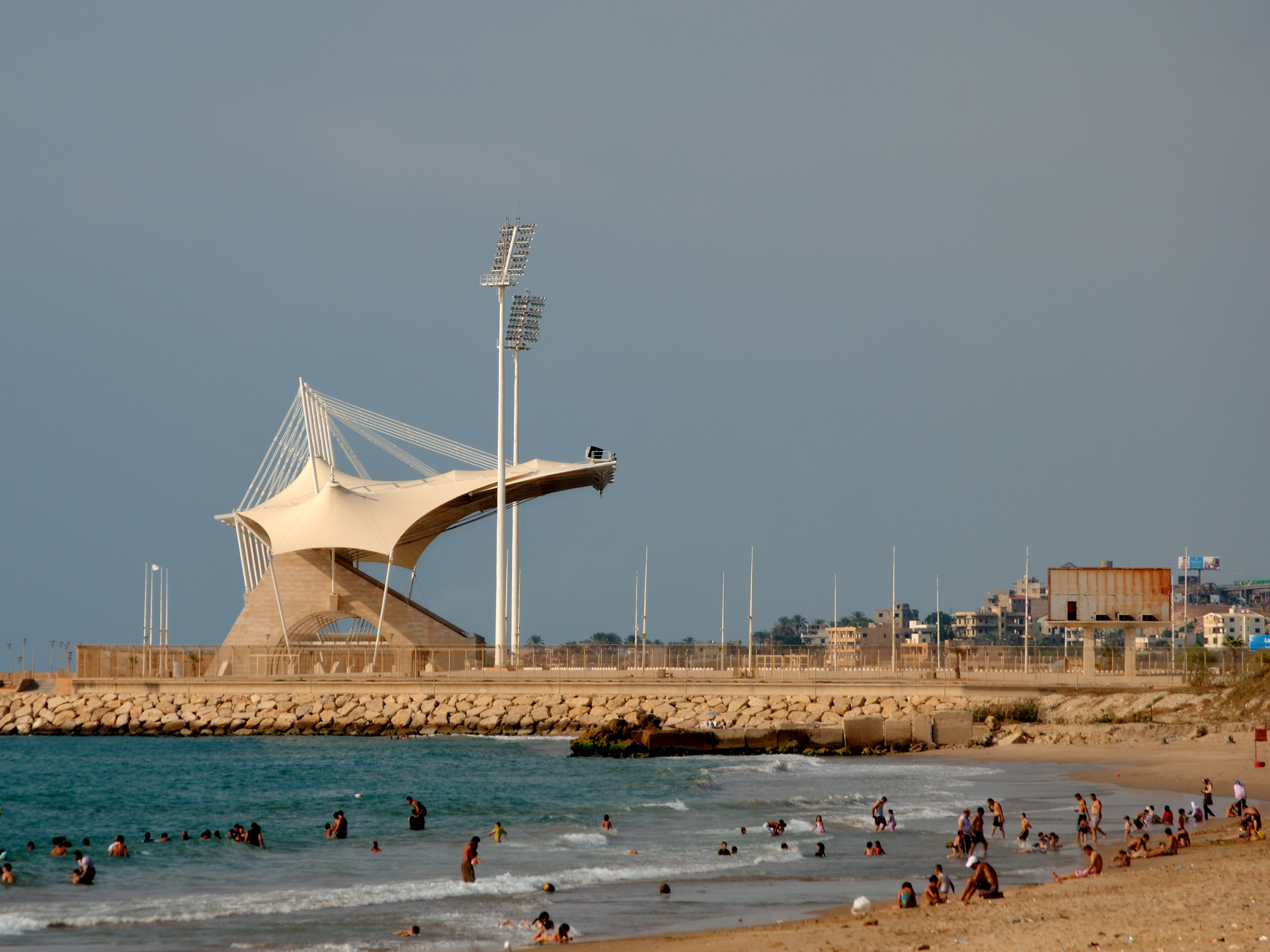 The stand of Saida International Stadium with a well occupied (and slightly rubbish strewn) beach in the foreground